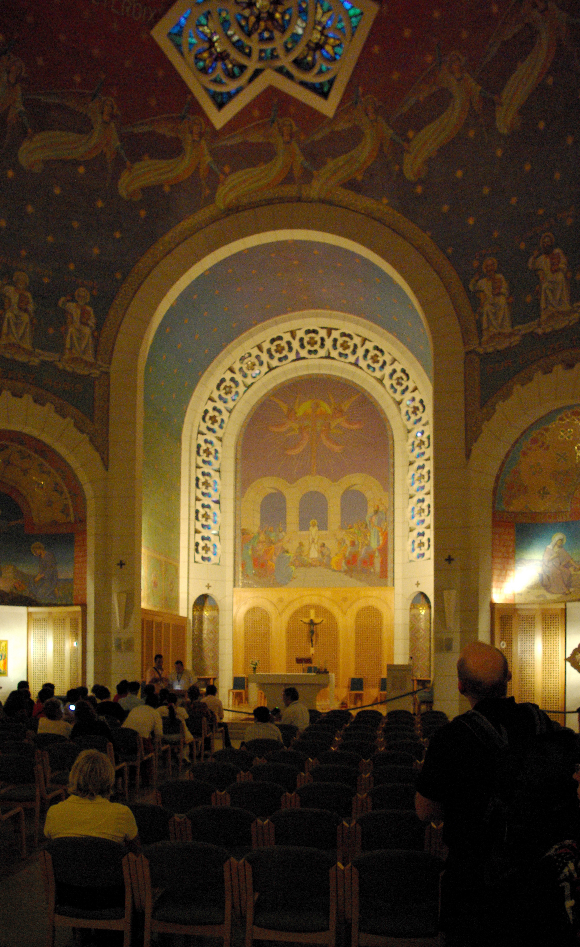 Jerusalem, St. Peter in Gallicantu